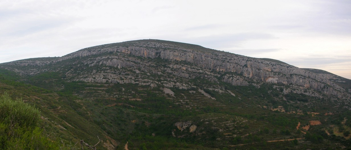 View of an area of the Talaies d'Alcalà mountains, southern end